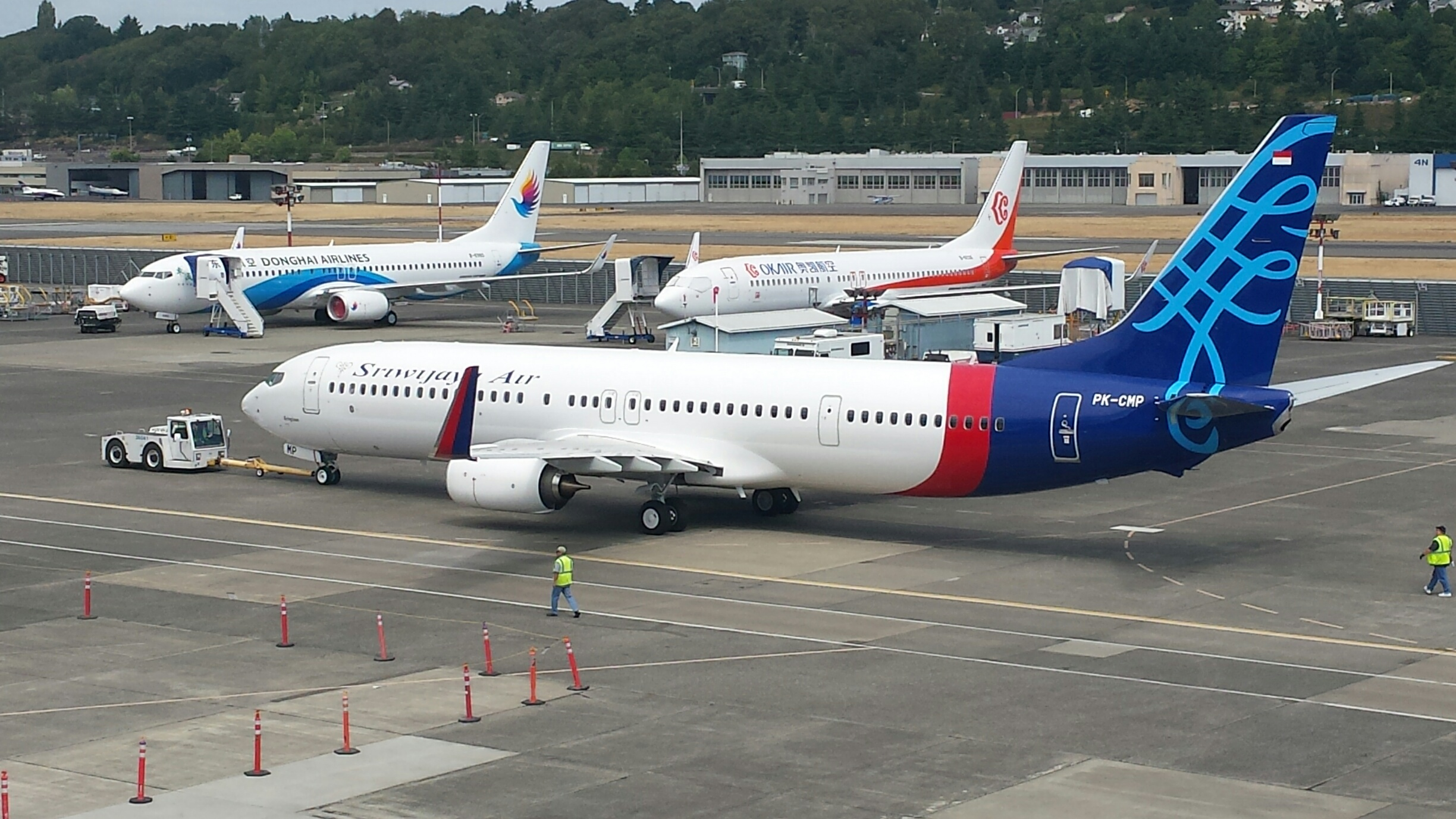 Sriwijaya's Boeing 737-900ER at Boeing Field in Seattle, WA. USA